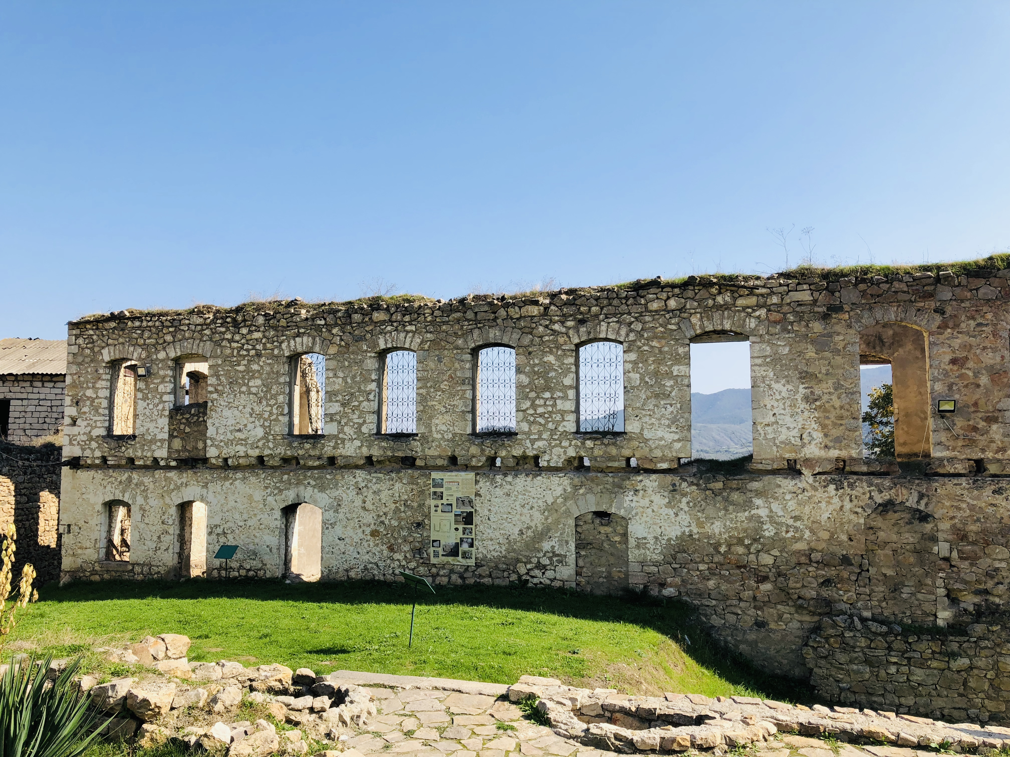 Togh's Melikian Palace